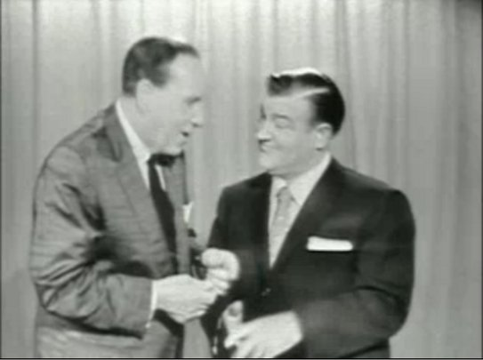 Screen capture from the Internet Archive, taken from "This Is Your Life Lou Costello". Around the 00:48 mark.